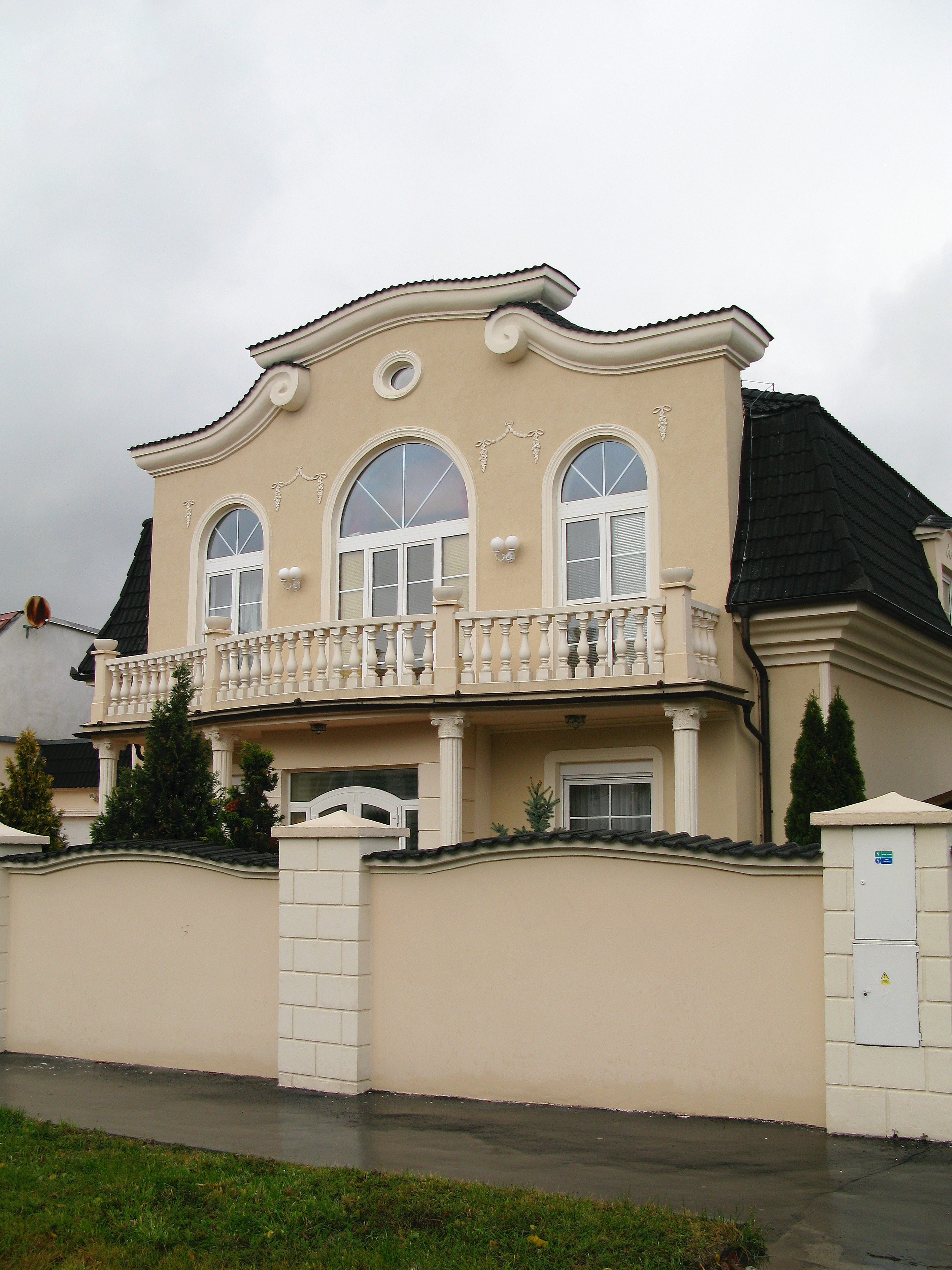 A house in old Chodov, Prague